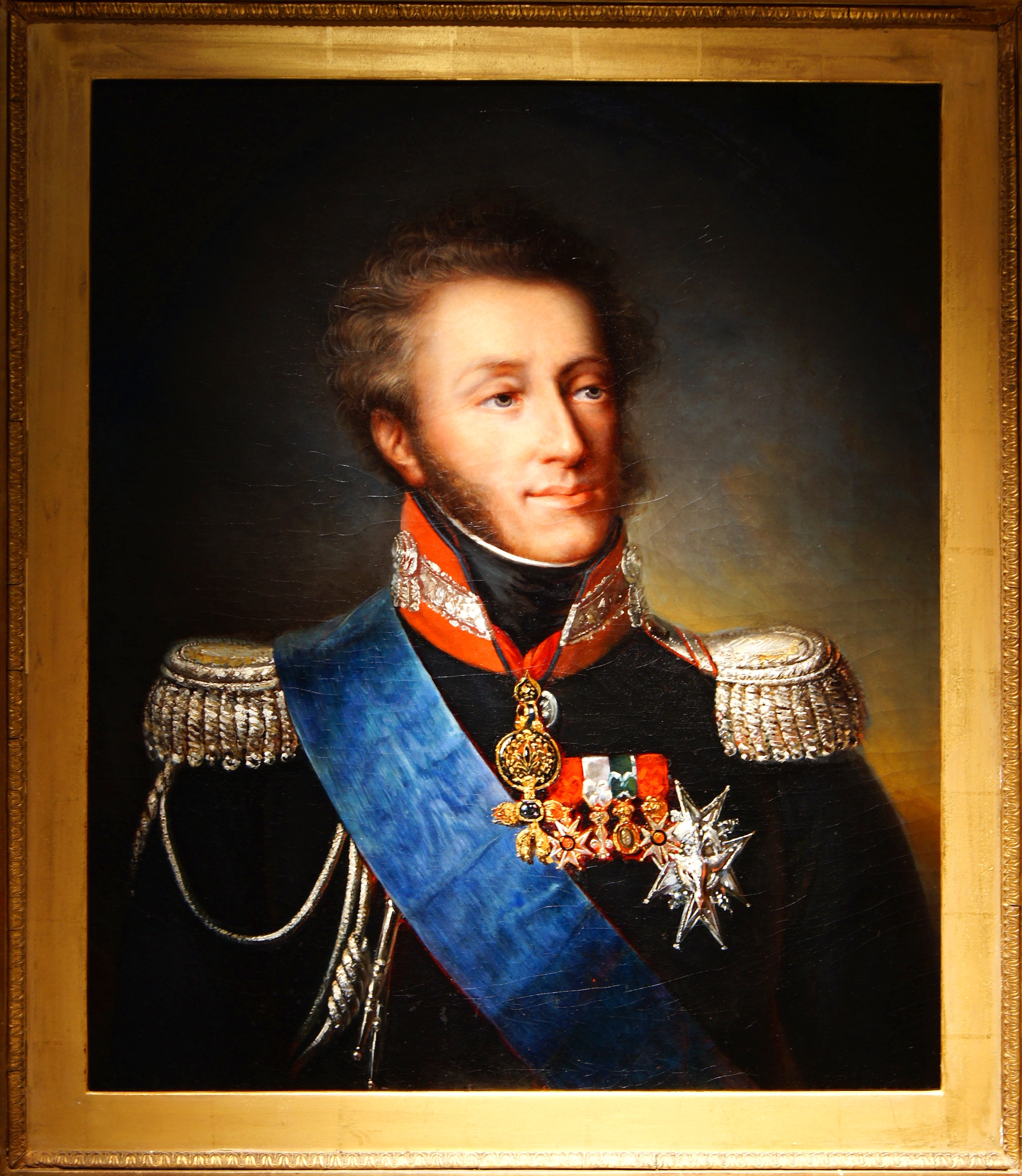 Louis-Antoine of Artois, Duke of Angoulême (1775-1844), Louis XIX